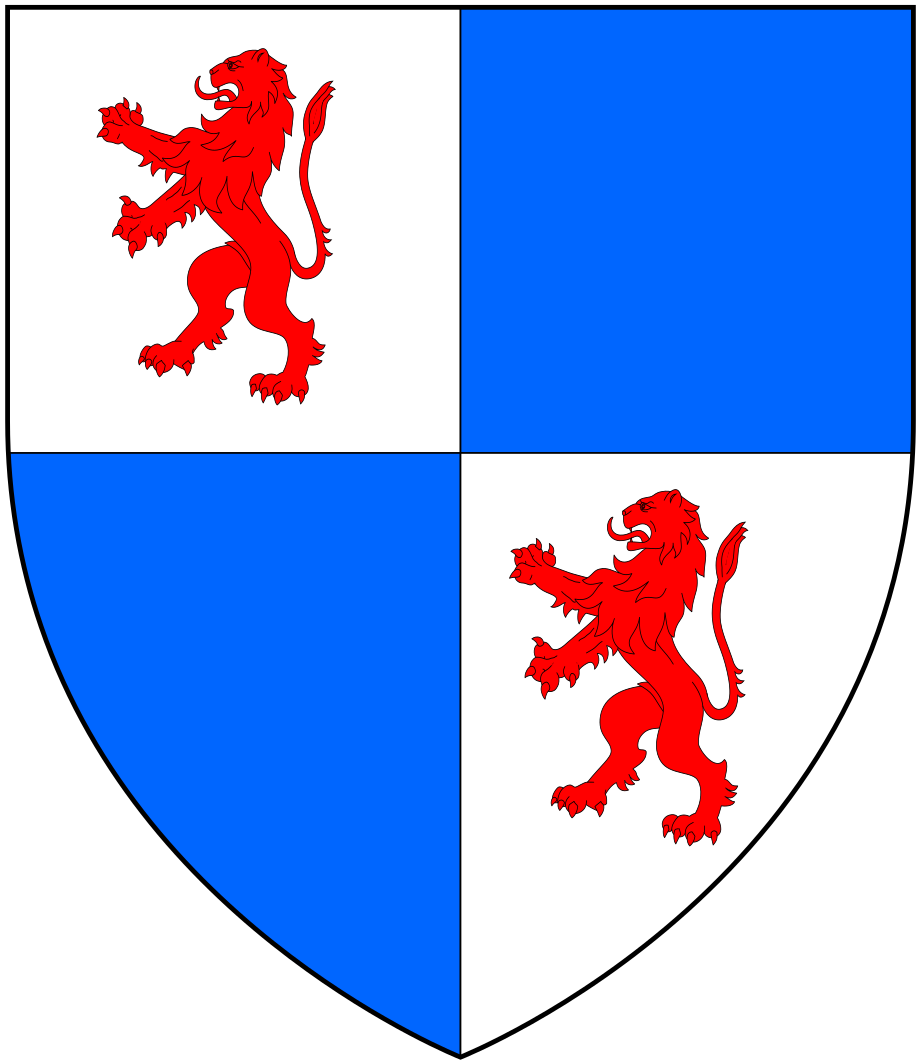 Arms of Pollexfen of Kitley in the parish of Yealmpton, Devon: Quarterly argent and azure, in the 1 and 4 quarter a lion rampant gules (Vivian, Lt.Col. J.L., (Ed.) The Visitations of the County of Devon: Comprising the Heralds' Visitations of 1531, 1564 & 1620, Exeter, 1895, p.600)